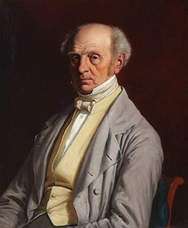 Portrait of merchant Hans Puggaard (1788-1866) with a yellow waistcoat and a light brown jacket , ca. 1853